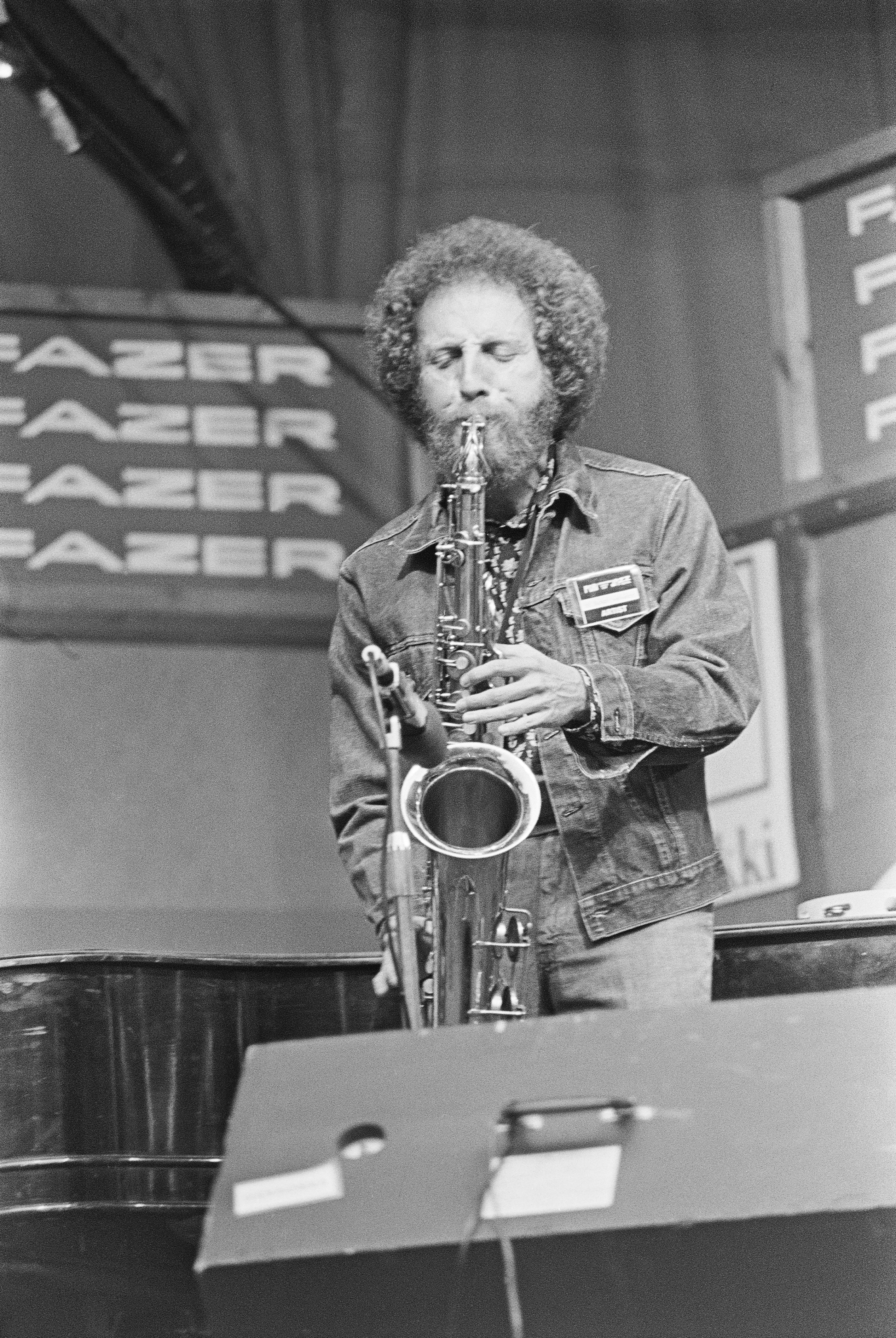 Photograph of the American jazz saxophonist Gerry Niewood playing at Pori Jazz with Chuck Mangione Quartet.